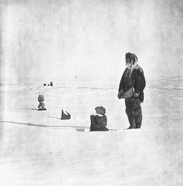 Inuktjuit [Inuksuit] (man like) stone monuments for Caribou drive. Dismal Lake west of "Narrows" March 25, 1911